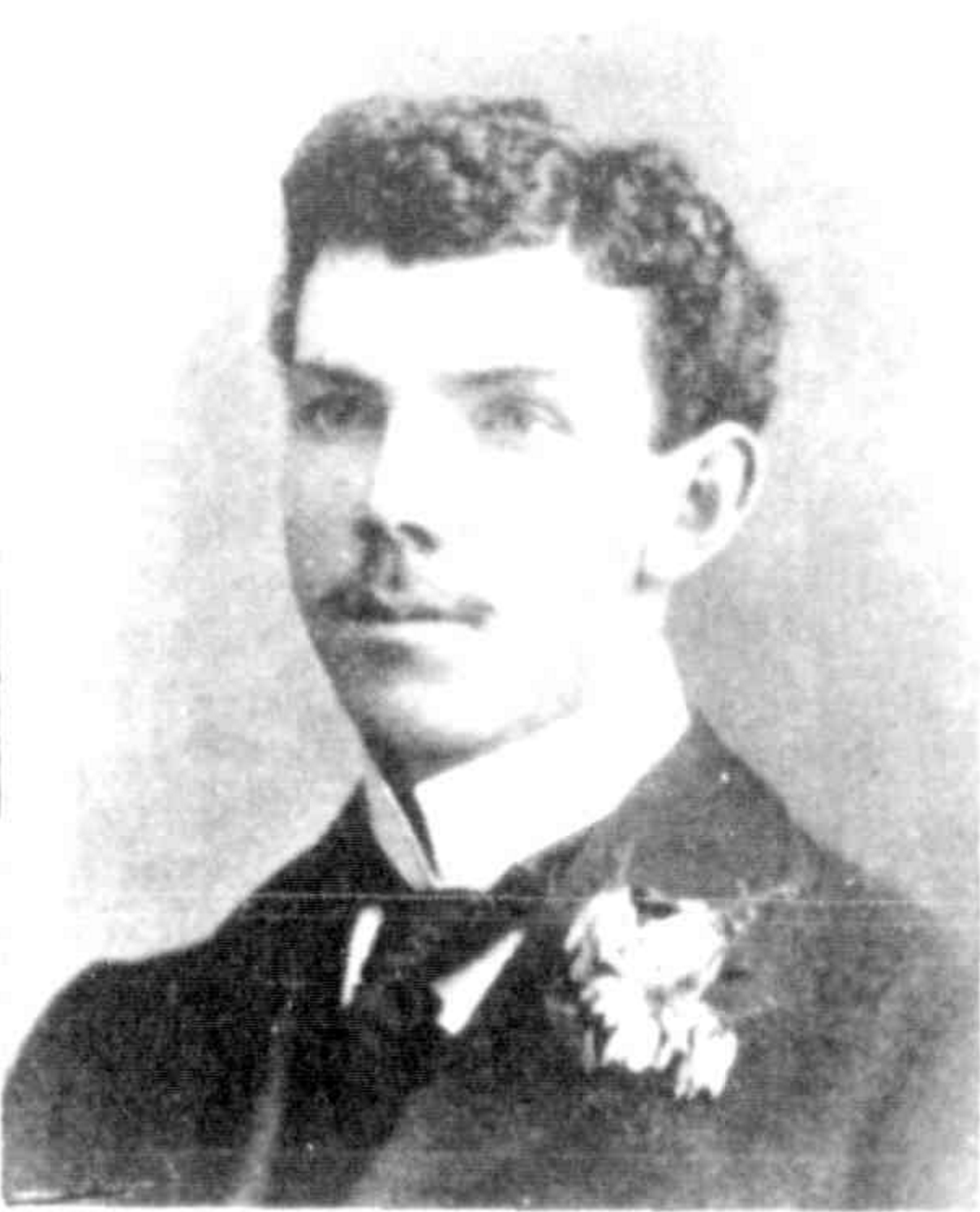 Portrait of Jack Dalton published in Melbourne Punch with portraits of several dozen other Victorian Football League players.